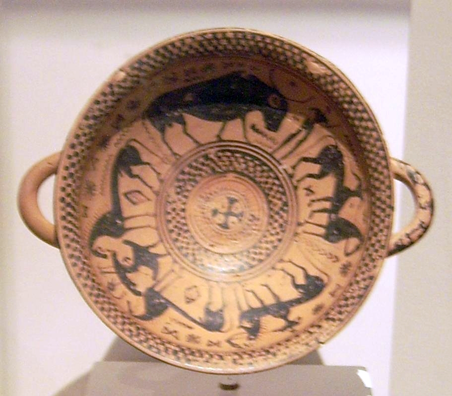 Skyphos by the Birdseed Painter; from Thera; about 735/720 BC.; National Archeological Museum Athens (13038)